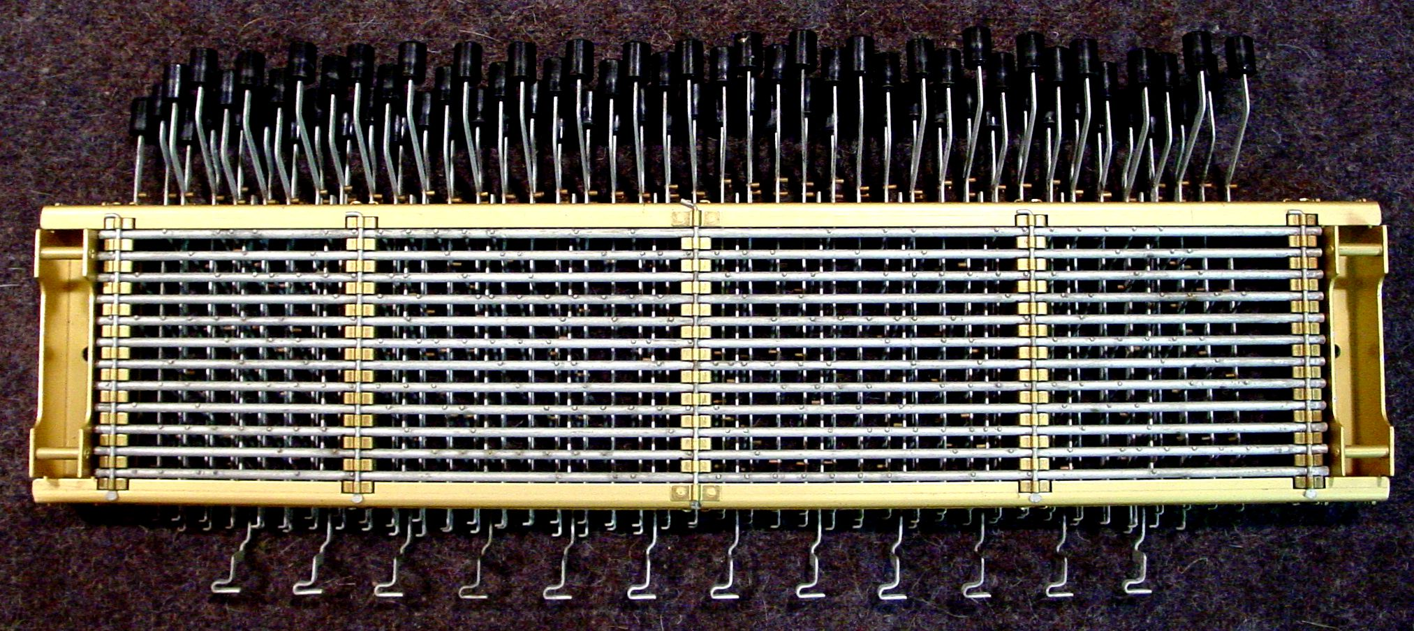 Bass mechanics for an accordeon. Pressing a button activates at least one of the twelve crooks on the bottom side. each crook activates a flap for a wind hole to the reed block